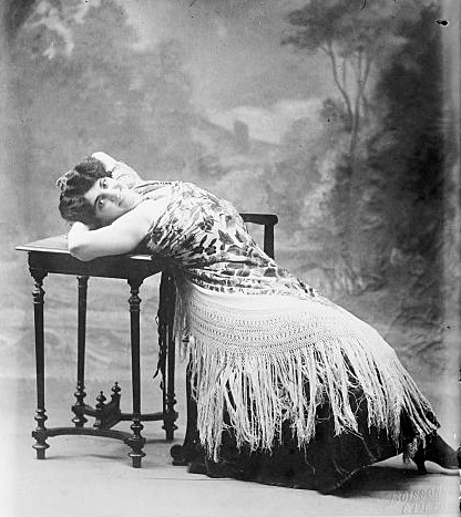 Mme Marguerita Sylva as Carmen, of the Opera Comique.